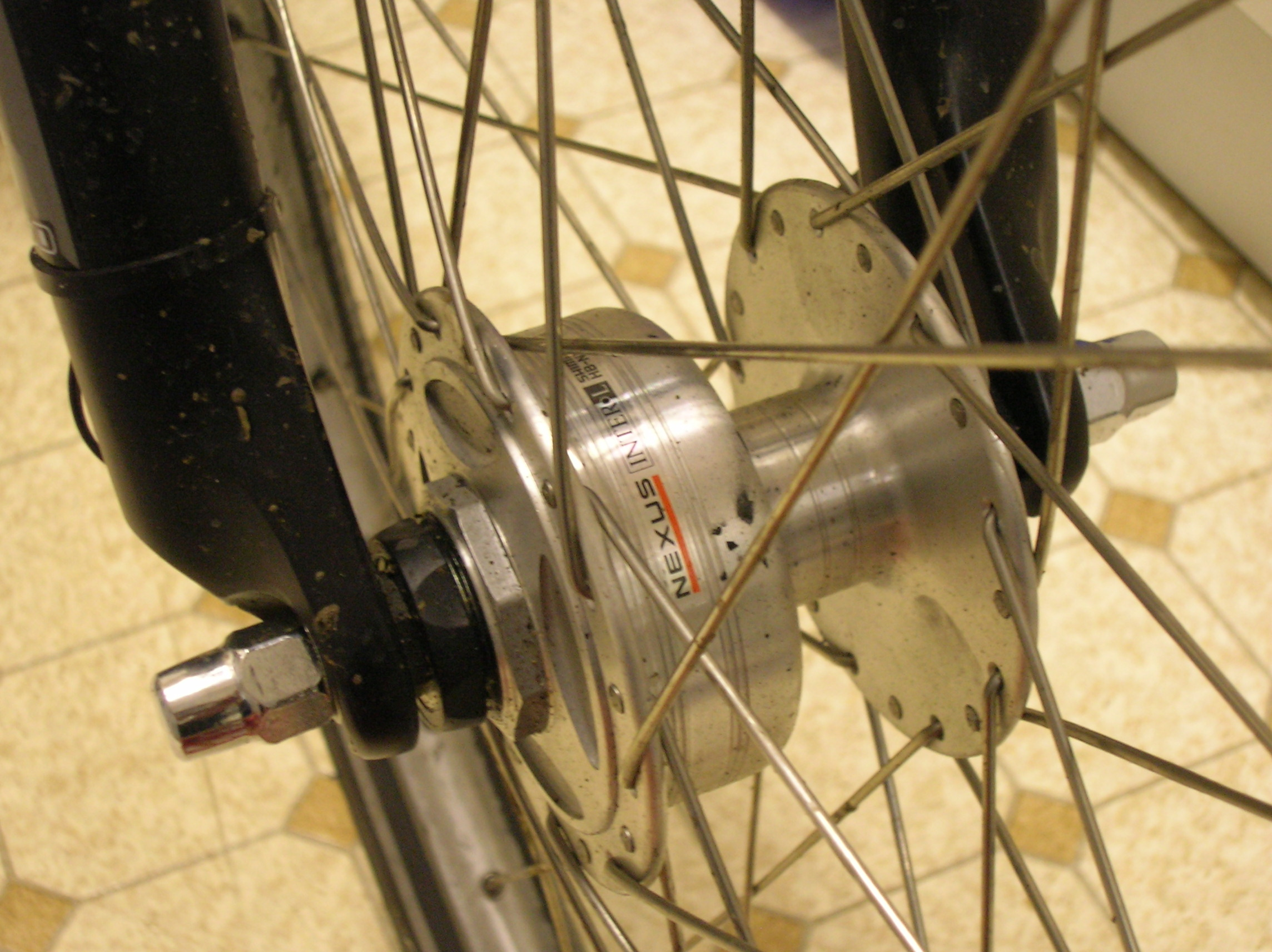 Shimano Nexus Inter-L hub dynamo on Giant Boulder. Picture taken by me, User:JzG